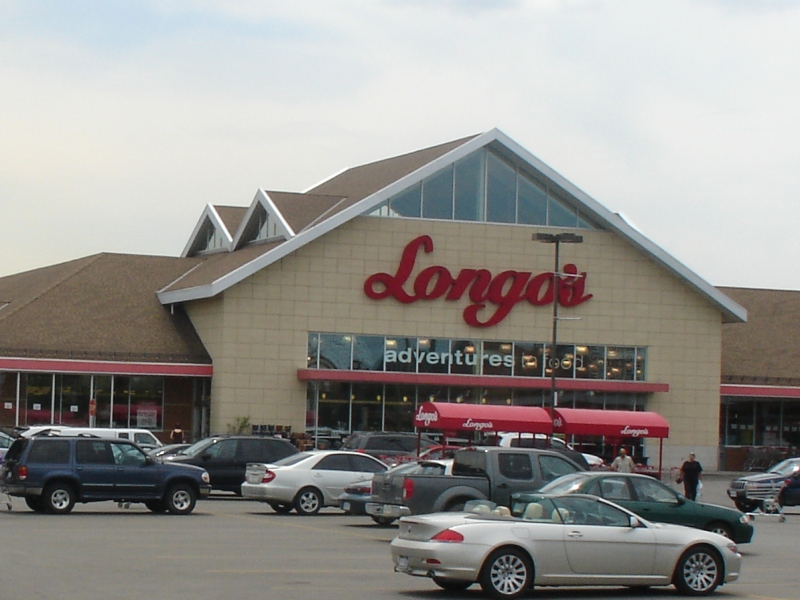 Longo's Rutherford store.